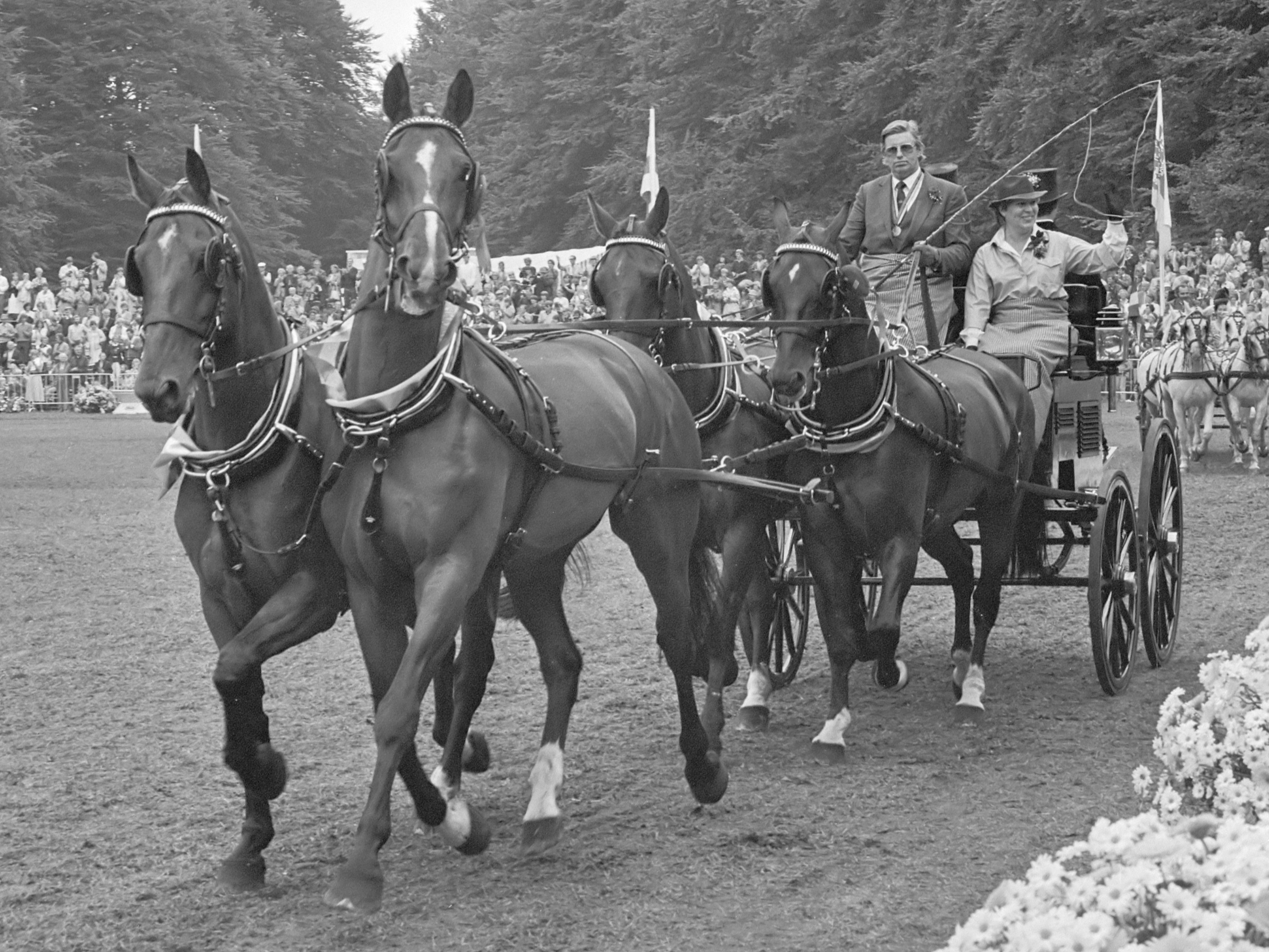 Wereldkampioenschap vierspannen in Apeldoorn; Nederlandse wereldkampioen Tjeerd Velstra met zijn vierspan 15 augustus 1982